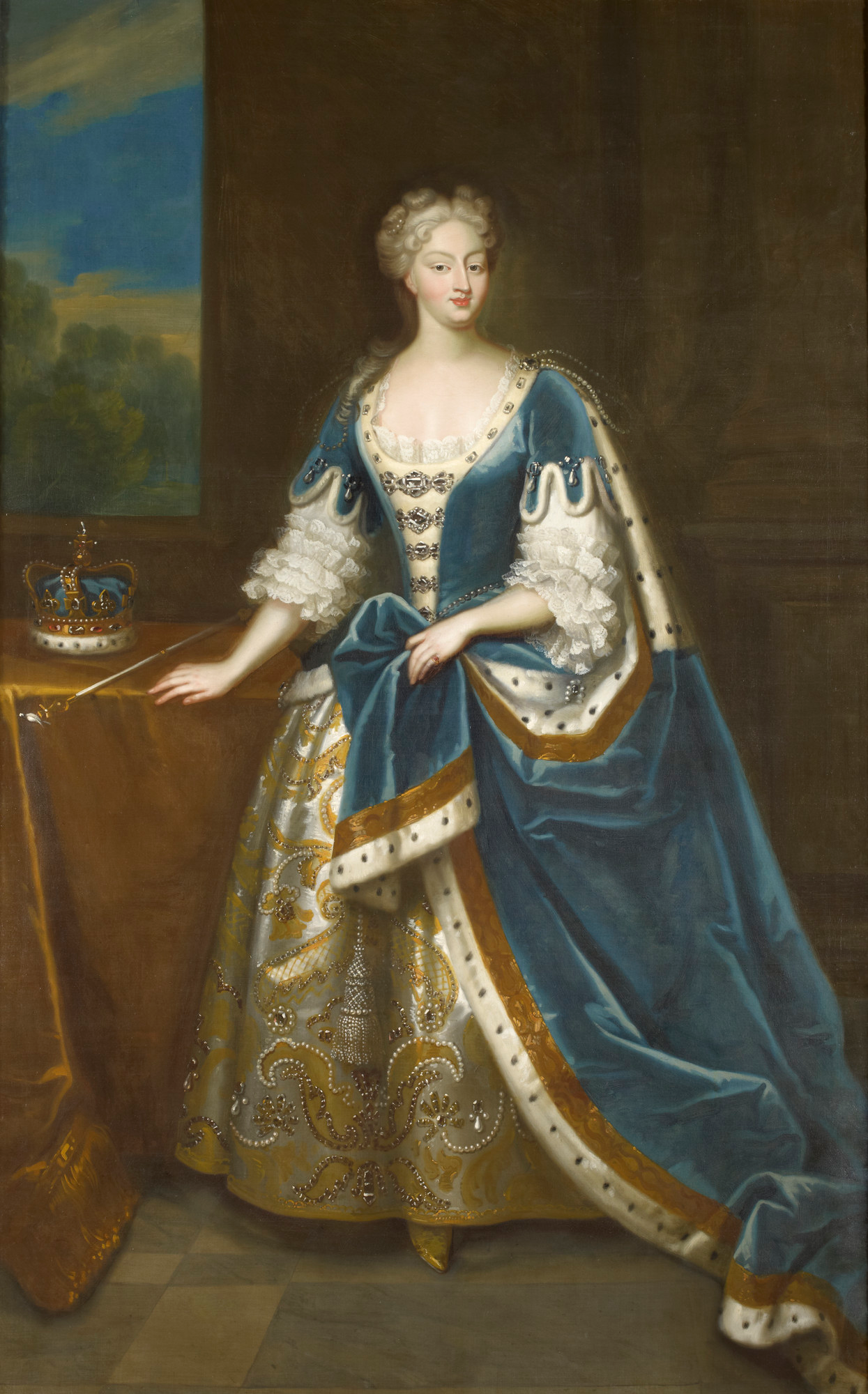 Caroline of Ansbach in state robes